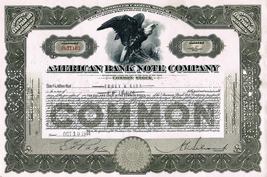 American Bank Note Company, Share certificate, 1944